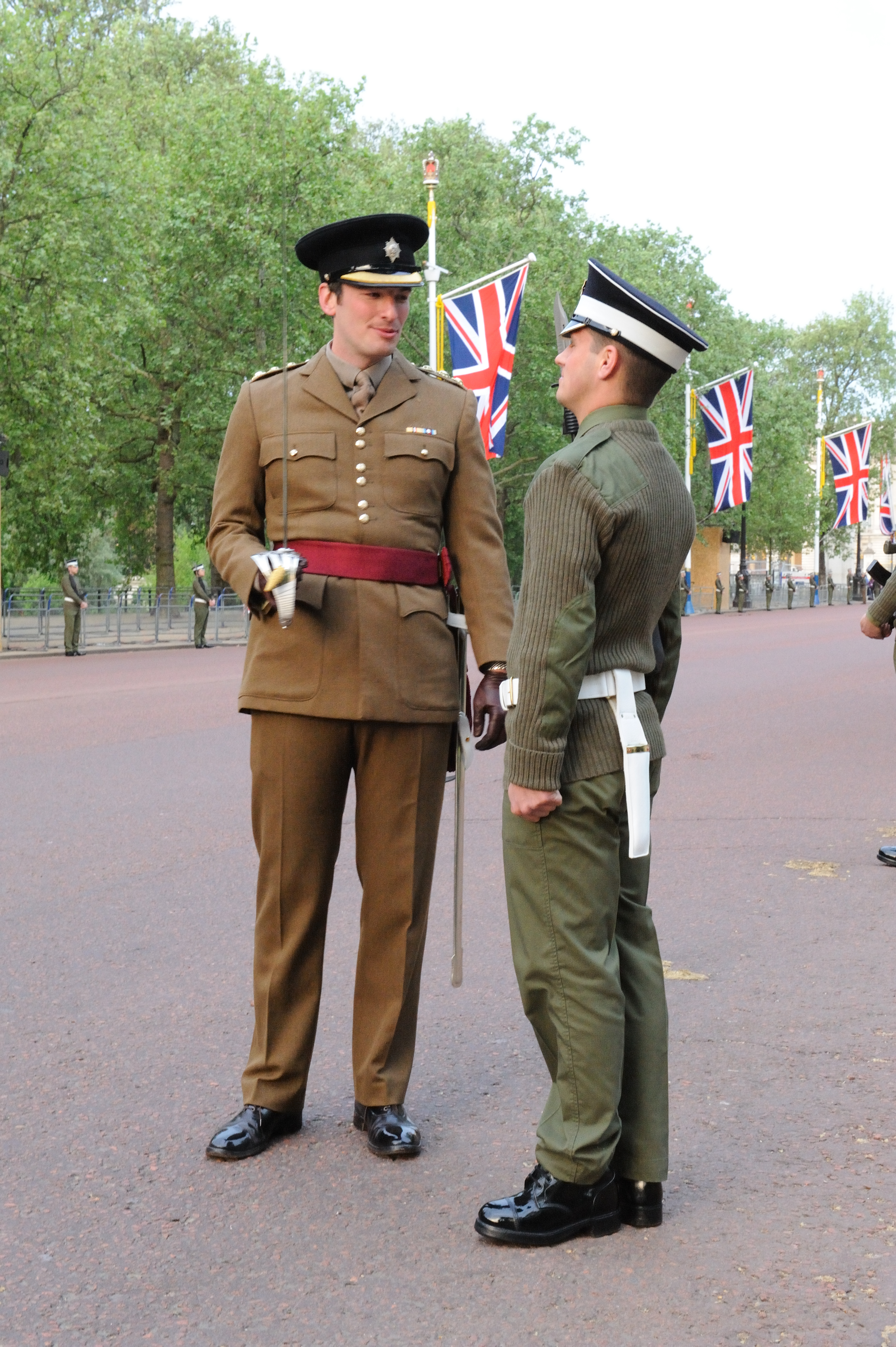 Royal Wedding rehearsal Wednesday 27th April 2011